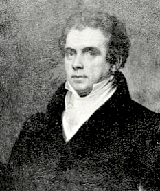 Portrait of John Doggett (1780-1857) of Boston, Massachusetts